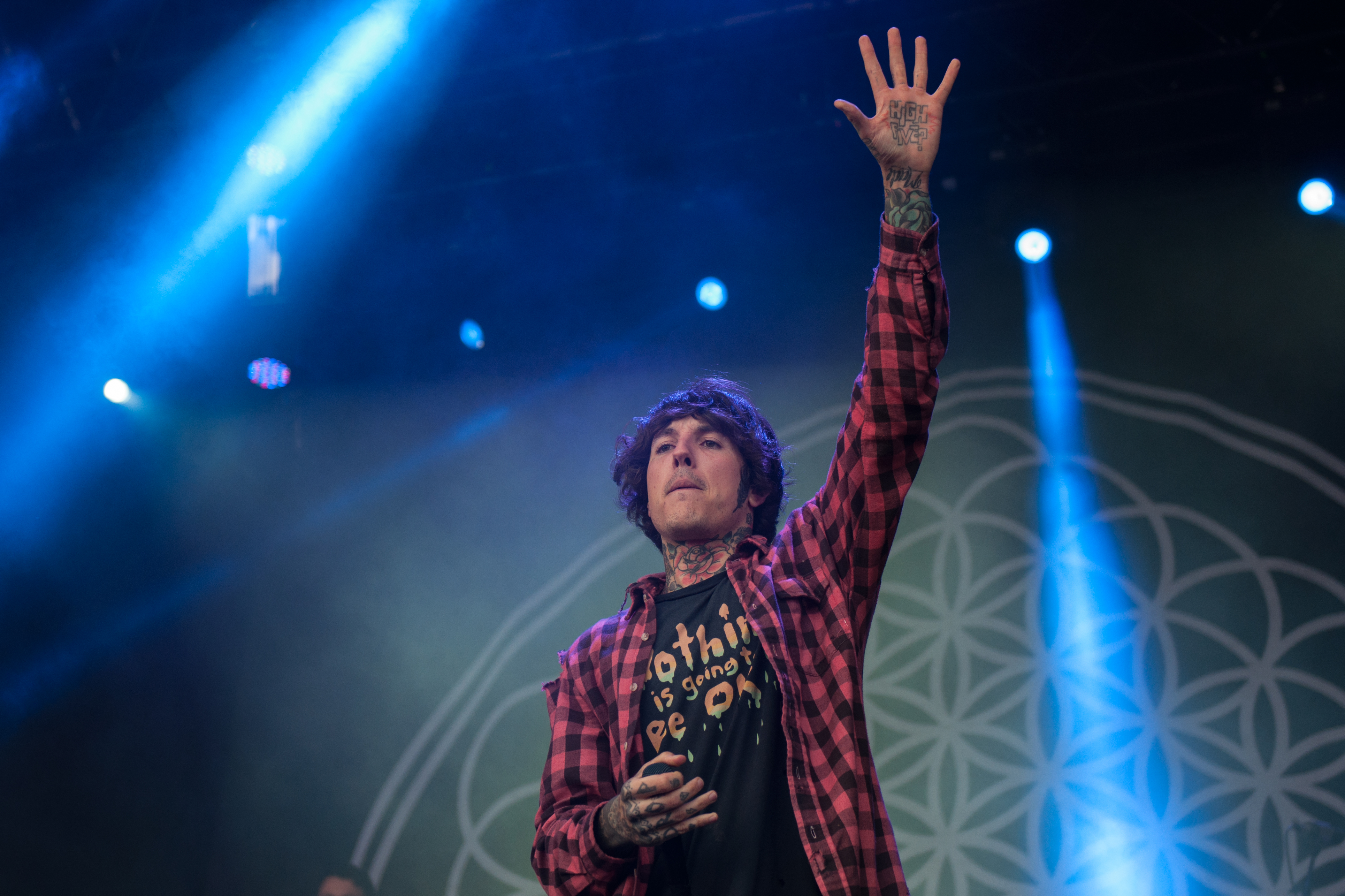 Bring Me the Horizon at Vainstream Rockfest 2014